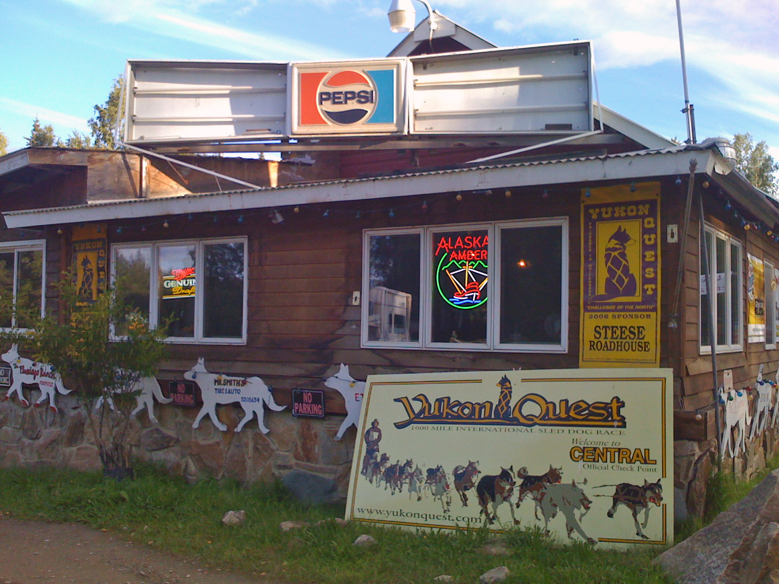 Steese Roadhouse in Central, Alaska, site of the Central checkpoint of the Yukon Quest sled dog race.